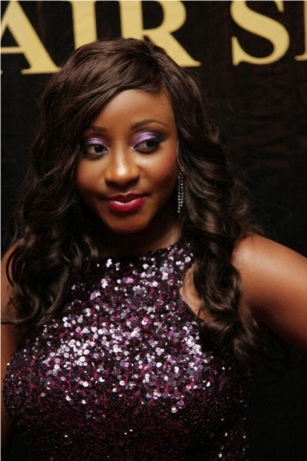 Ini Edo at a movie premiere